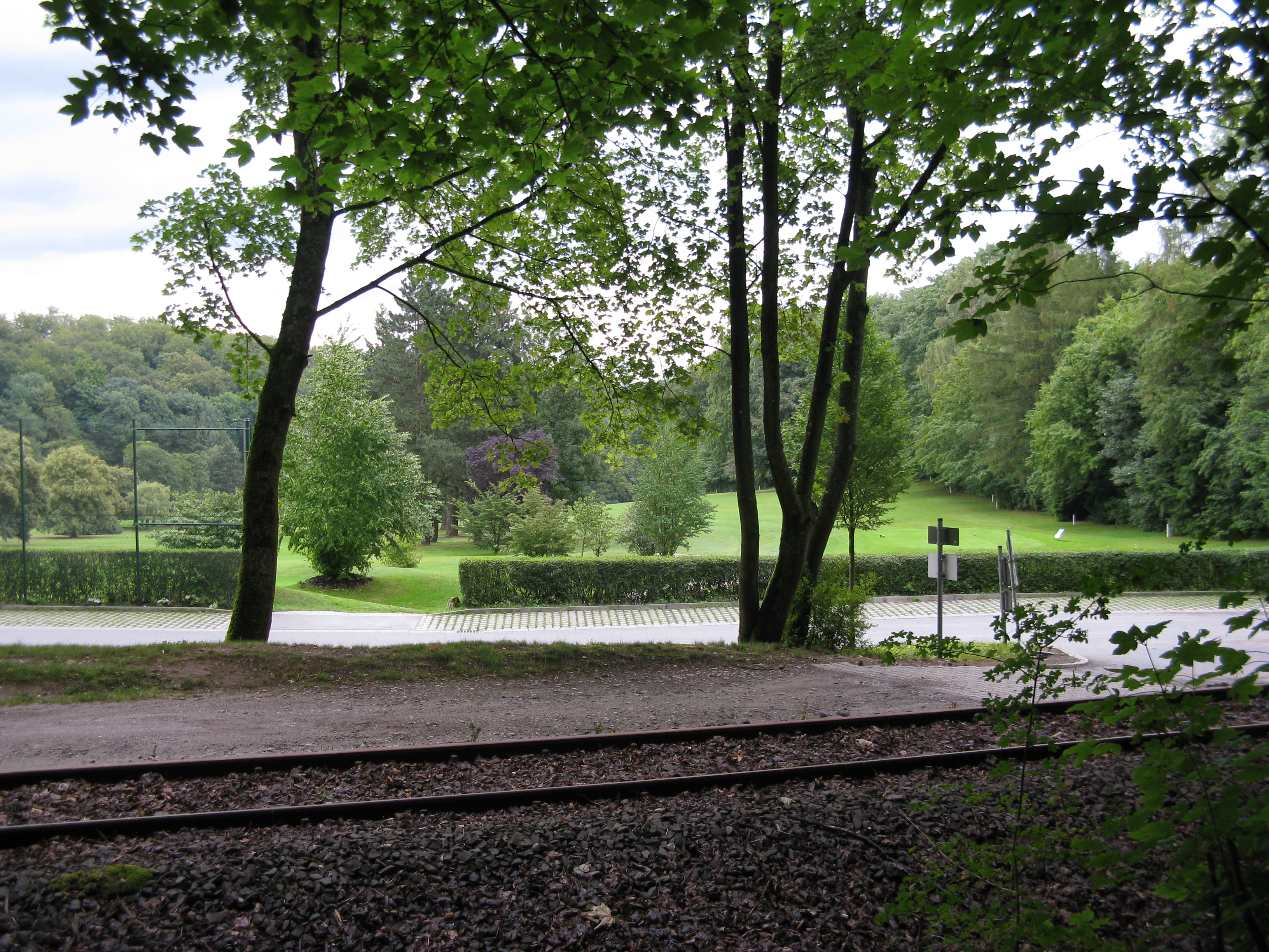 Golf Course Chausseehaus Wiesbaden